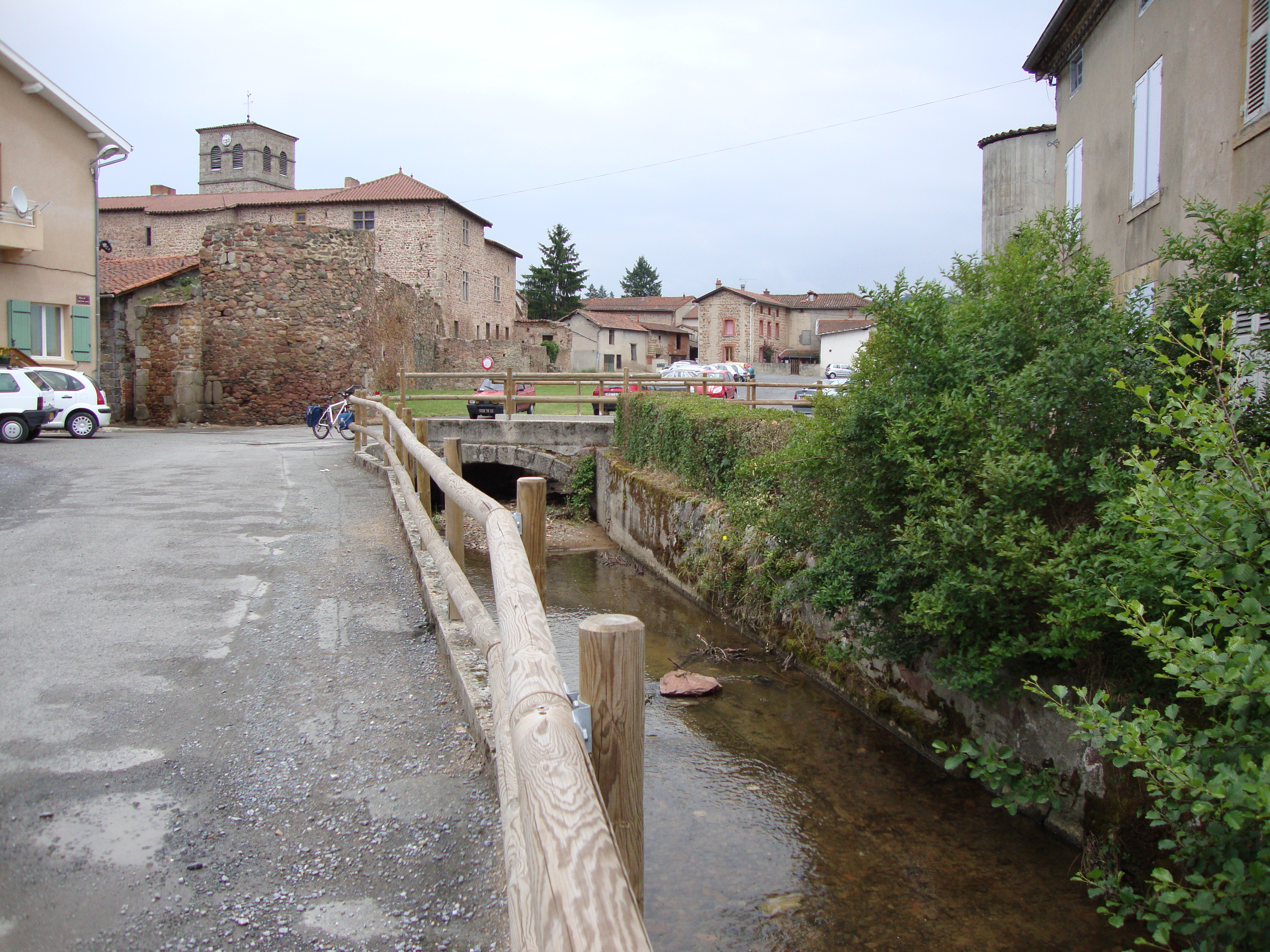 Pouilly-lès-Feurs_(Loire,_Fr)_Quai_de_la_Vesne,_au_fond_le_prieuré